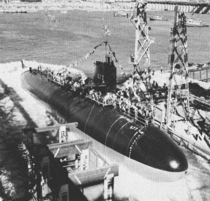 The U.S. Navy submarine USS Billfish (SSN-677) being launched at the Electric Boat Division of the General Dynamics Corporation, Groton, Connecticut (USA), on 1 May 1970.